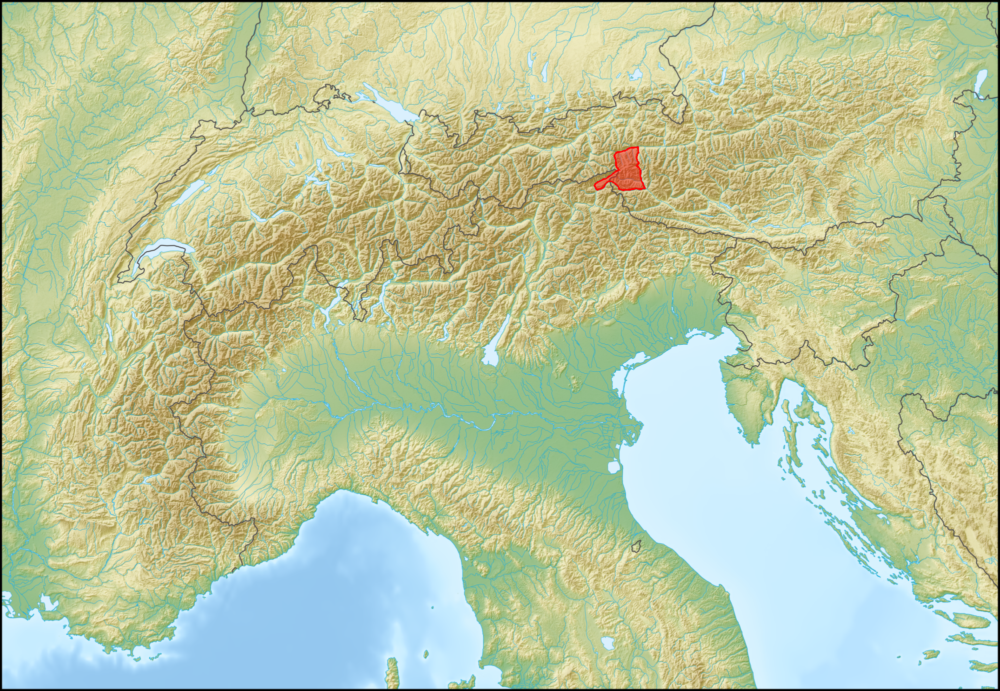 The location (red) of the Venediger Group (AVE 36) in the Alps, according to Alpenvereinseinteilung der Ostalpen im Alpenvereins-Jahrbuch "Berg '84".